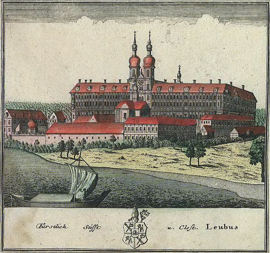 Leubus Abbey.